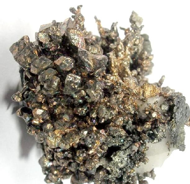 Silver Locality: Quincy Mine, Hancock, Houghton County, Michigan, USA (Locality at ) This is really quite an amazing specimen. It is composed of many, many cubic Silver crystals throughout the specimen. CUBIC crystals are rare, especially for Michigan. Note also a few other habits mixed in (dodec?). They all have a deep burnished color and fine natural patina with luster. Such good crystallization is rare, making this quite the extraordinary thumbnail. 2.4 x 2.3 x 2 cm